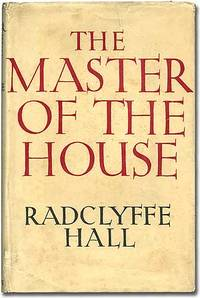 front cover of the first edition of Radclyffe Hall's 1932 novel The Master of the House